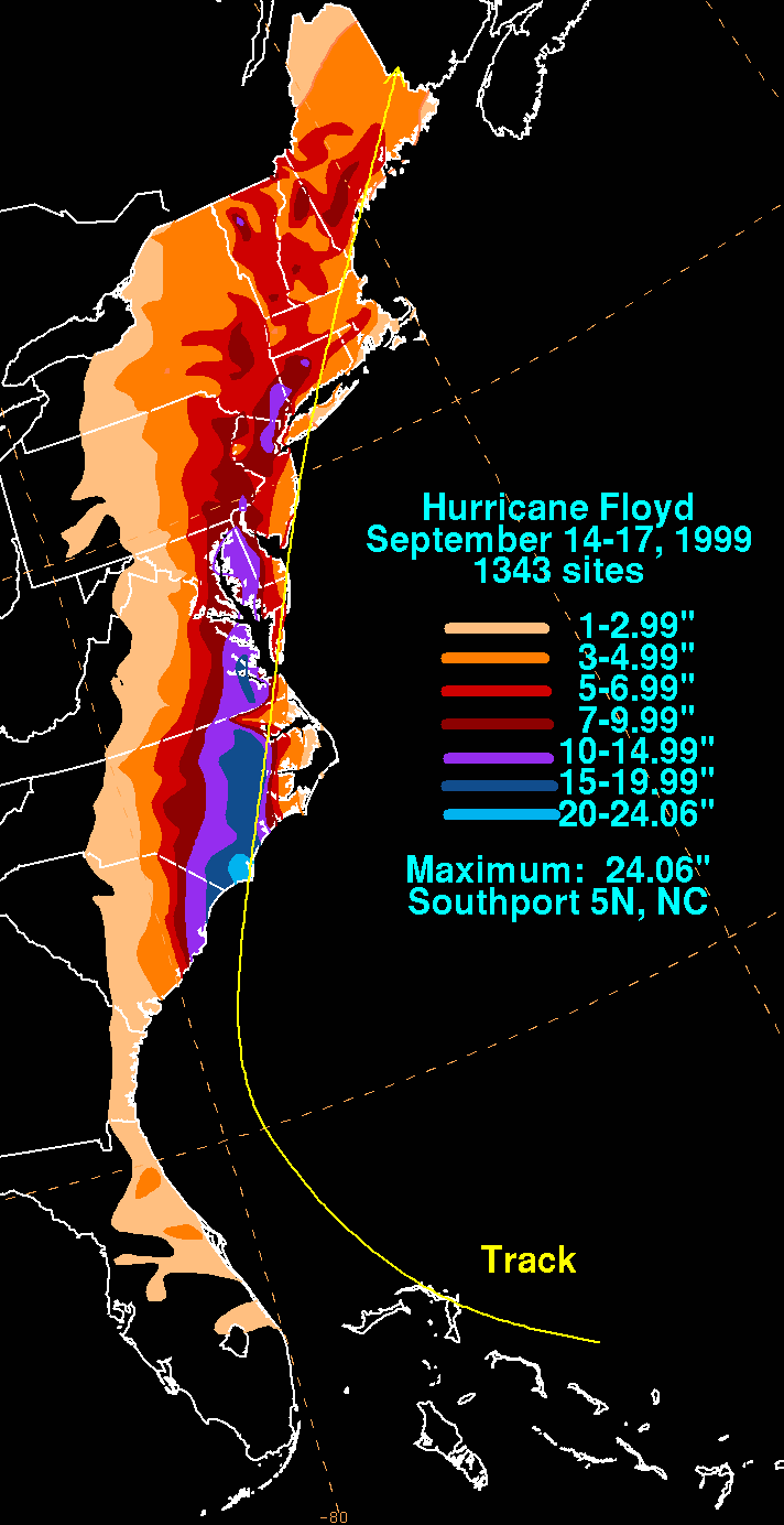 Rainfall produced by Hurricane Floyd during September 1999.